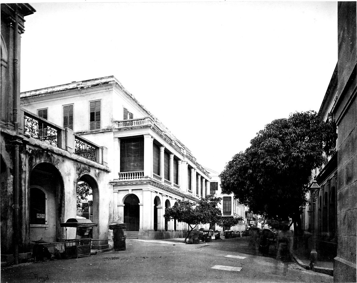 photo from Album of Hongkong Canton Macao Amoy Foochow